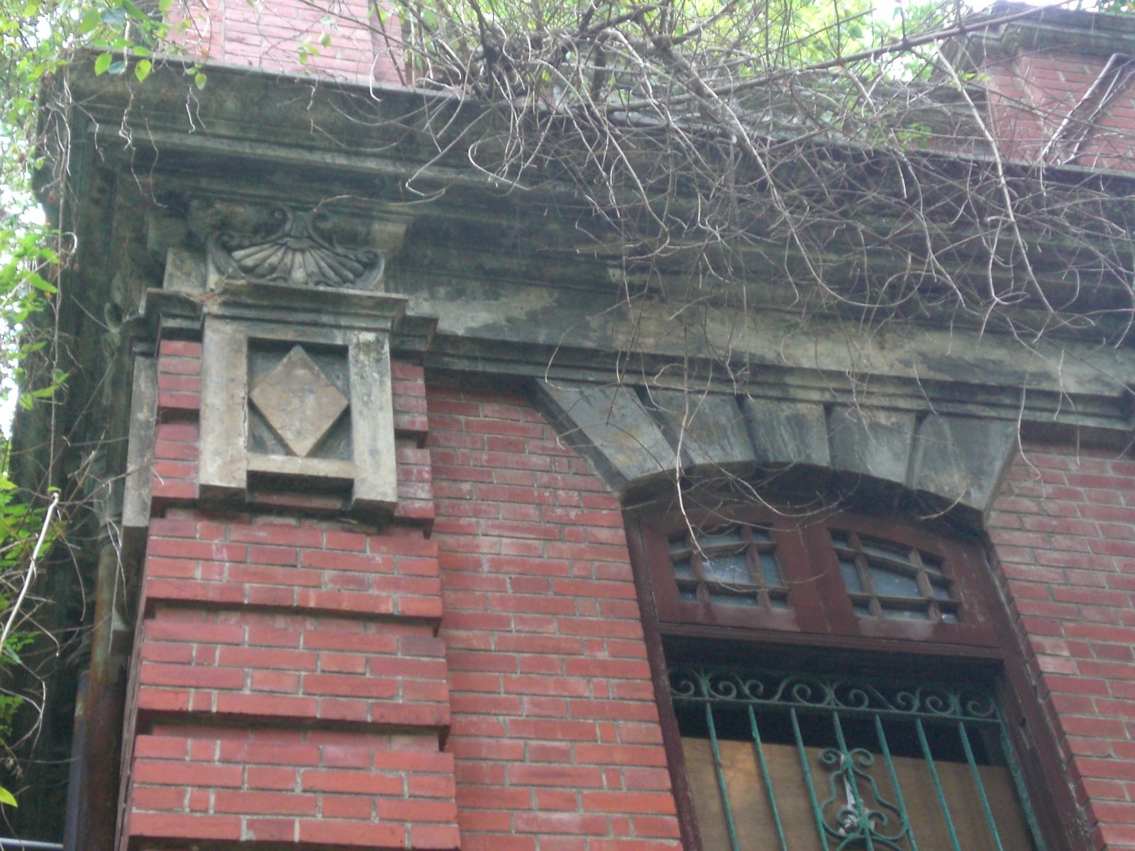 灣仔船街南固臺